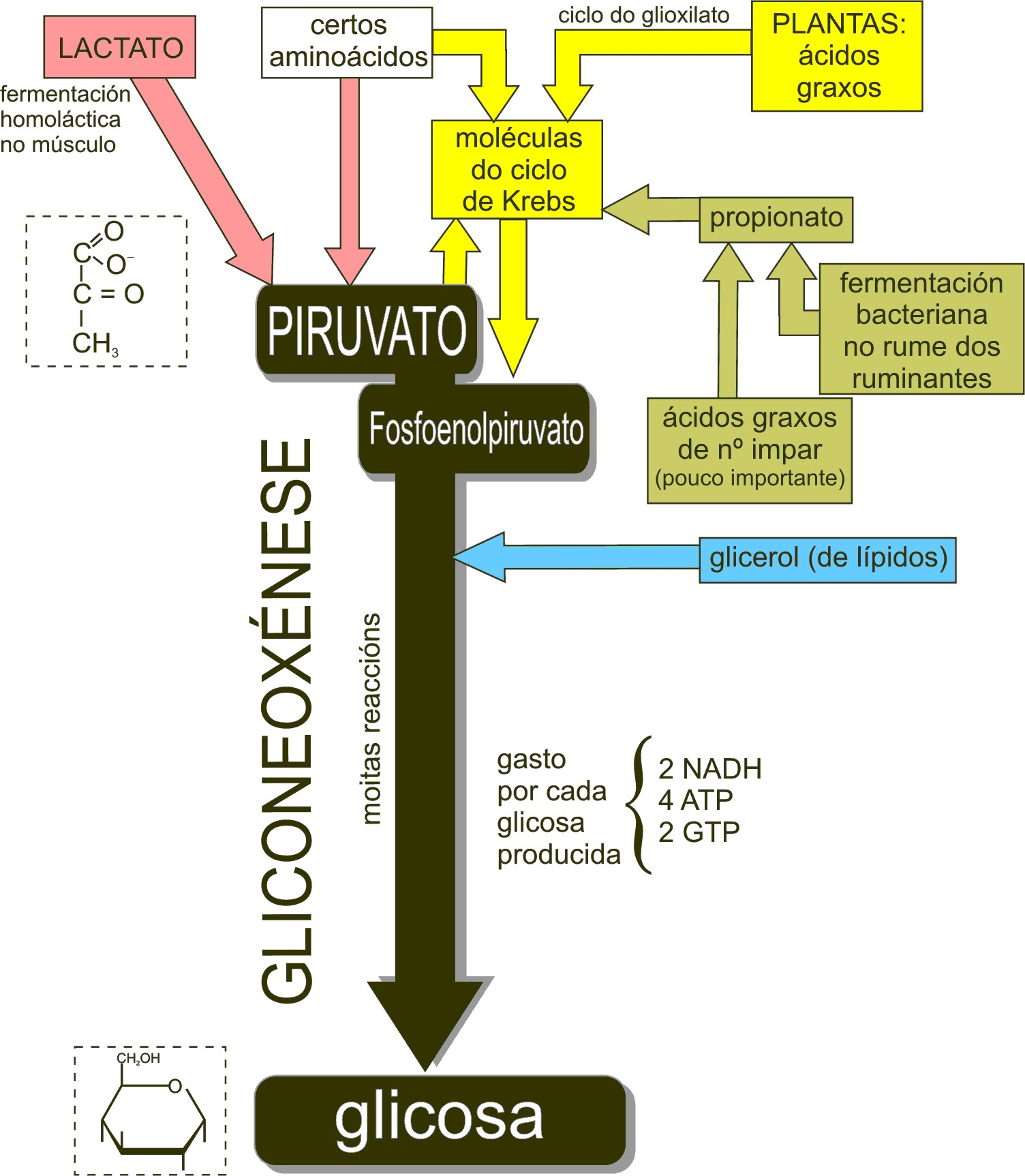 glyconeogenesis diagram jpg